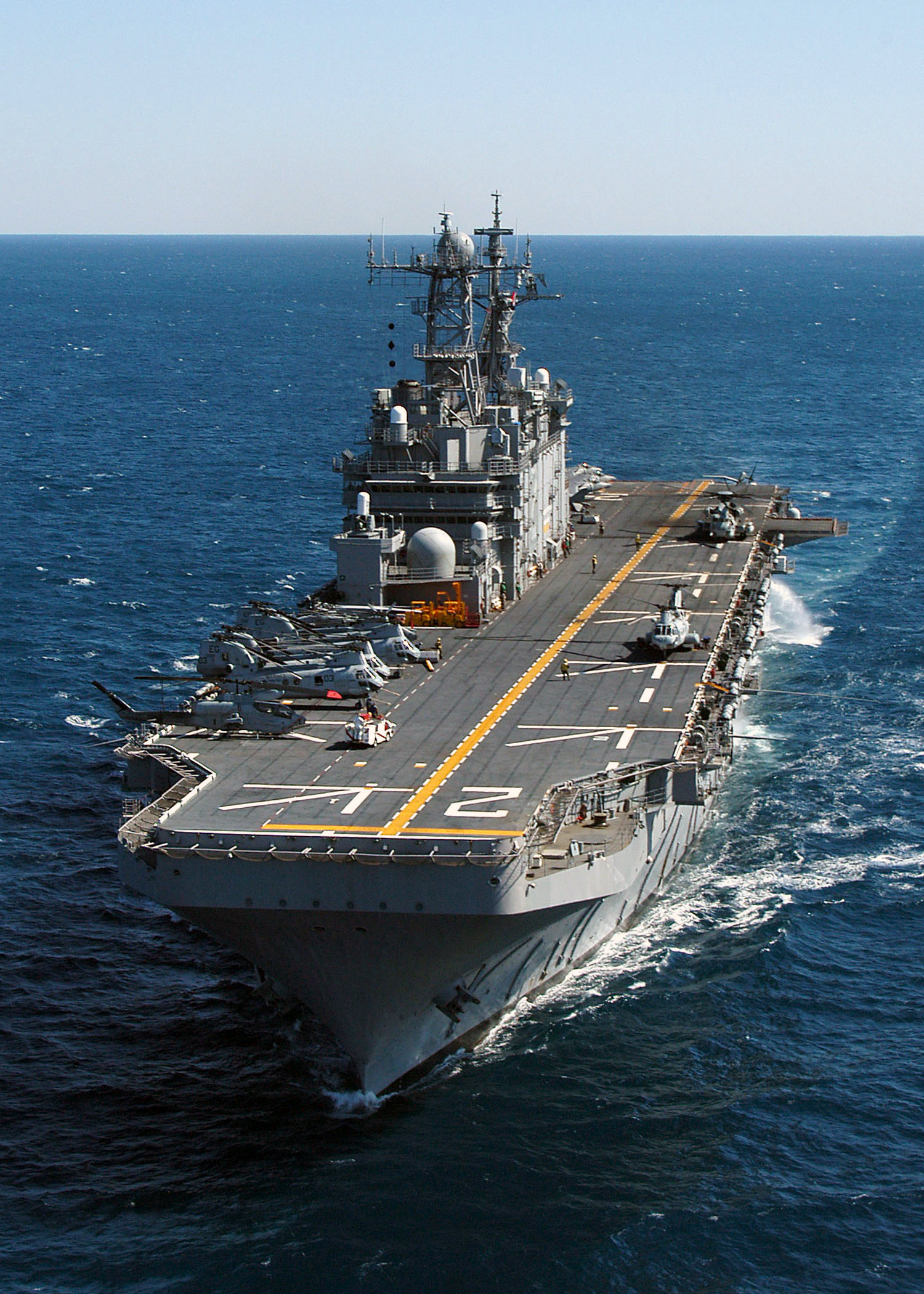 Atlantic Ocean (April 5, 2004) - The amphibious assault ship USS Saipan (LHA 2) prepares to launch a CH-46 Sea Knight and CH-53 Super Stallion from its flight deck during Expeditionary Strike Group (ESG) integration training in preparation for the ship's upcoming scheduled deployment. U.S. Navy photo by Photographer's Mate 1st Class Courtney Torgrude. (RELEASED)